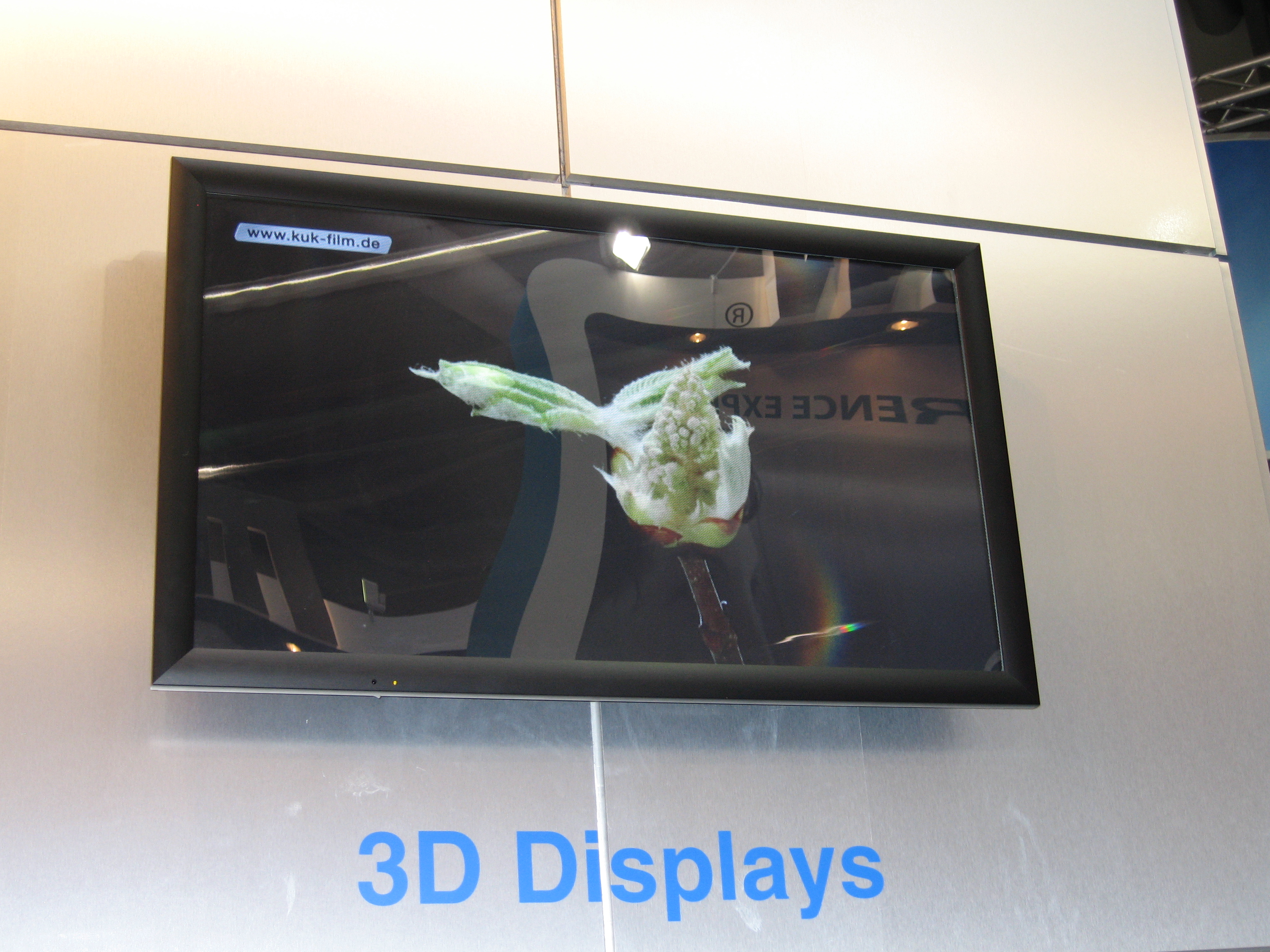 3D 42-3D6W01-WOW by Philips in development by Richardson Electronics. Visible on the Screen is an image of the 3D-film "Kastanie Zeitraffer / BUGA 06 München" produced by KUK Filmproduktion. Photo was taken on CeBIT 2006 in Hannover (Germany).